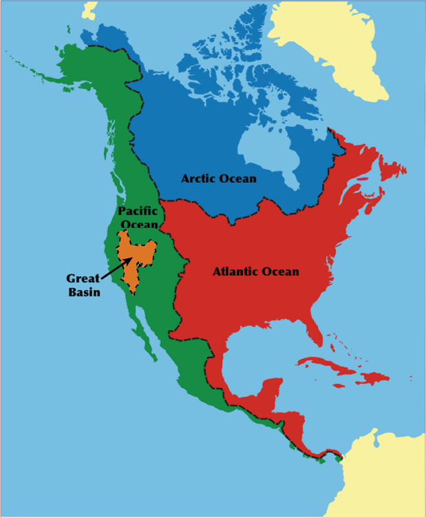 Updated North American drainage basins / watersheds map (including Great Basin)